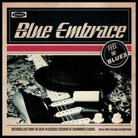 Blue Embrace Feel the Blues Live Live Single, released 2014